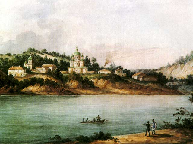 The historic Cossack Mezhyhirskyi monastery near Kiev, Ukraine. Destroyed in 1935